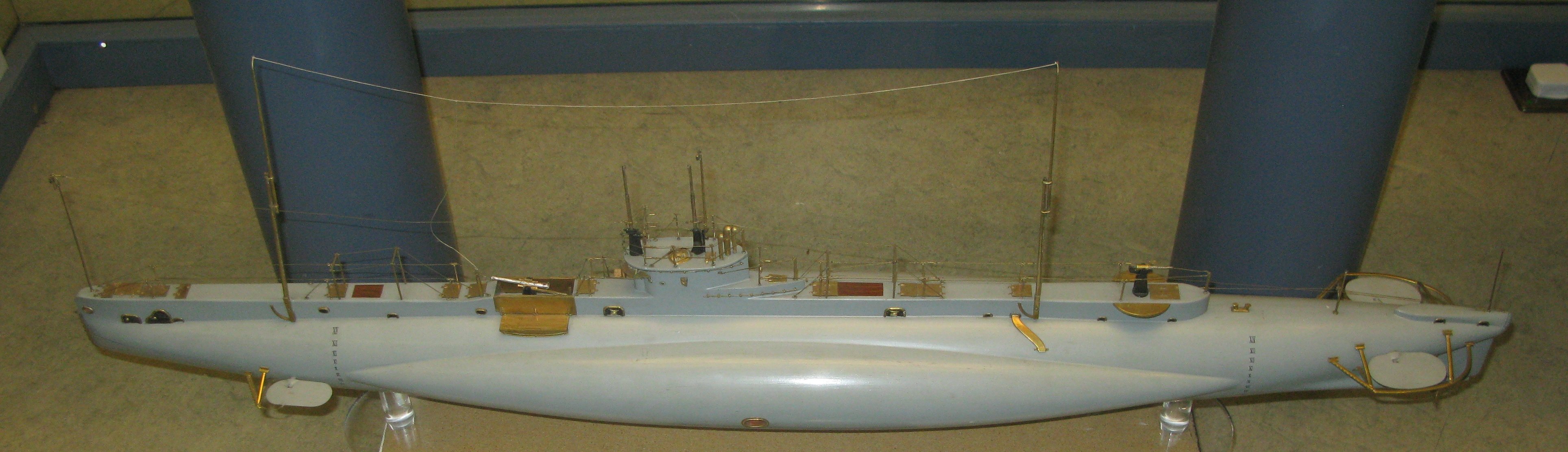 Photo of a model of a british E class submarine